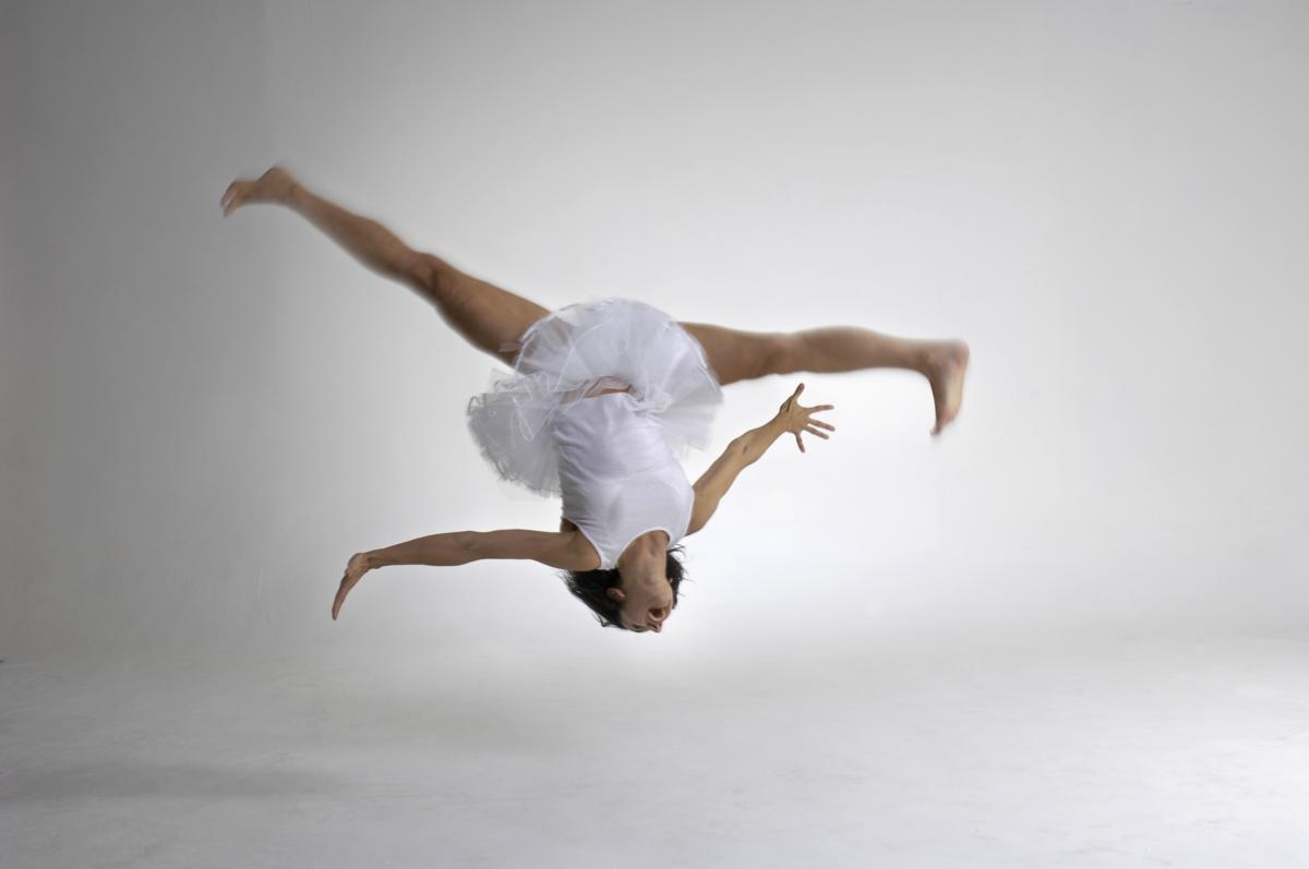 Divulgation photo of "DAMA", show from Paula Aguas Dance Company. Photo Taken by Ilana Bressler in march of 2007. Available at Paula Aguas's website